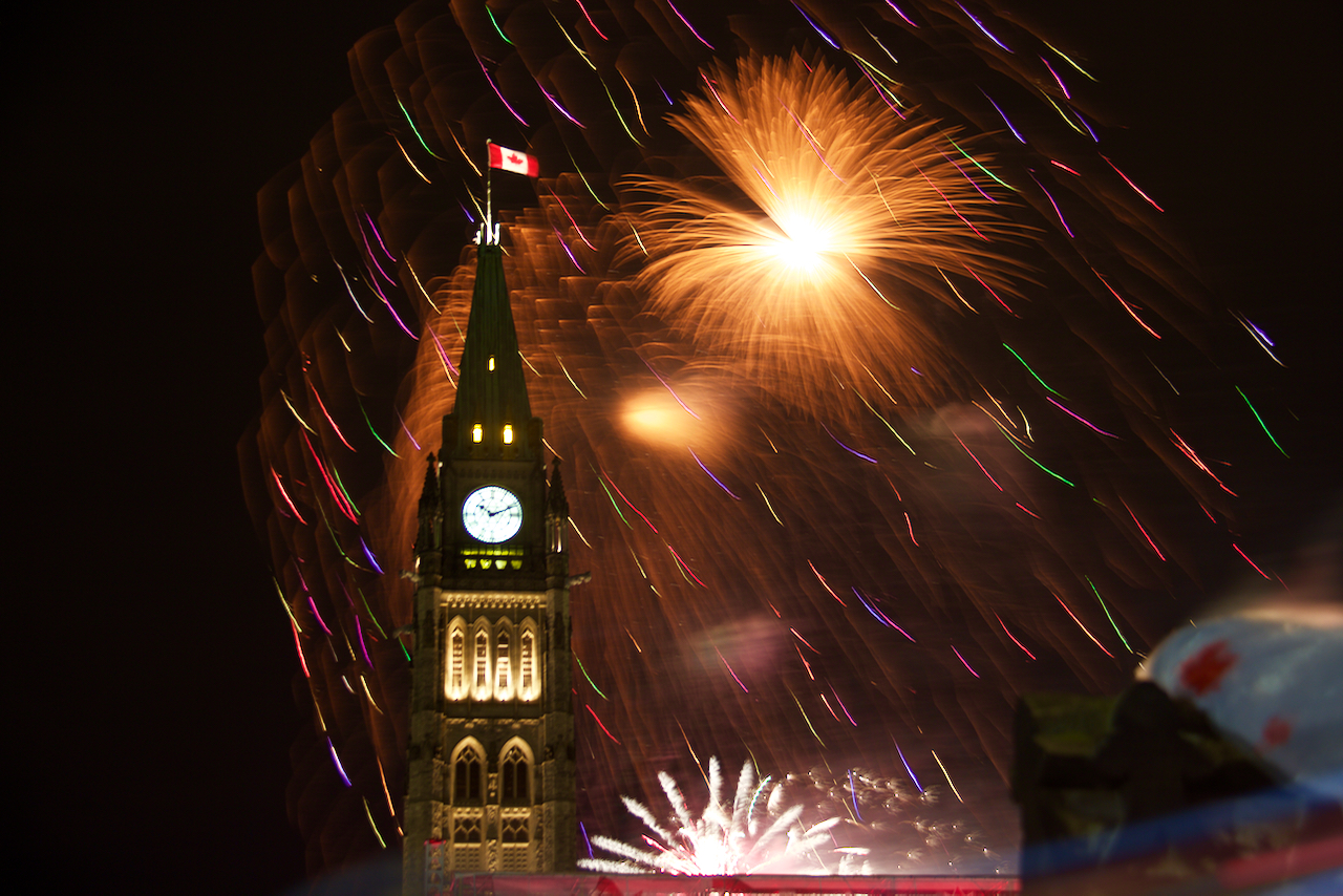 Best Canada Day experience, Ottawa, you have to go once in your life